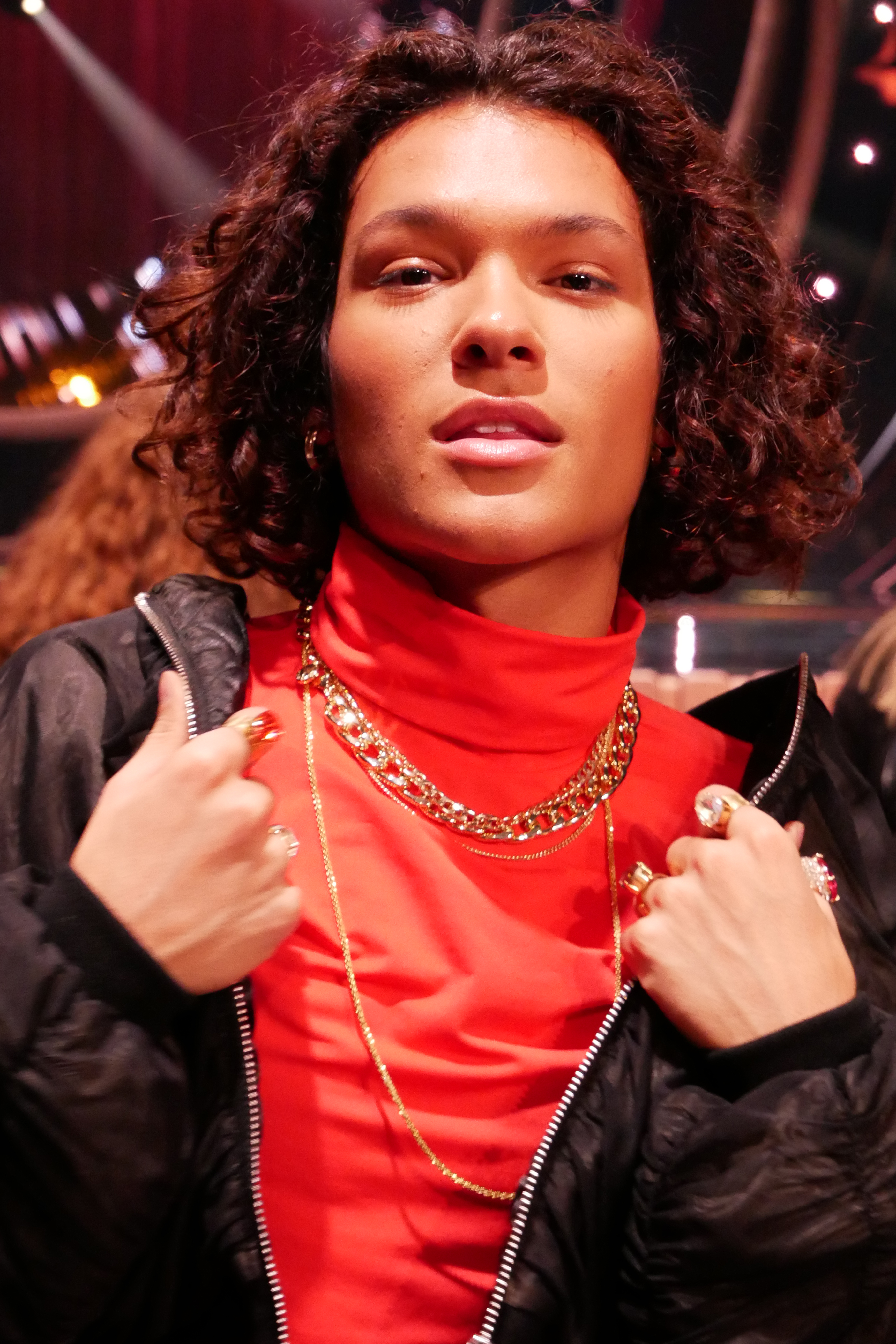 Melodifestivalen 2019, part contest 3, Leksand, Sweden